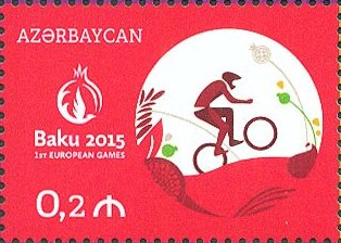 Baku 2015. First European Games.(2nd edition) N 1220 - 20 qapik – Cycling BMX